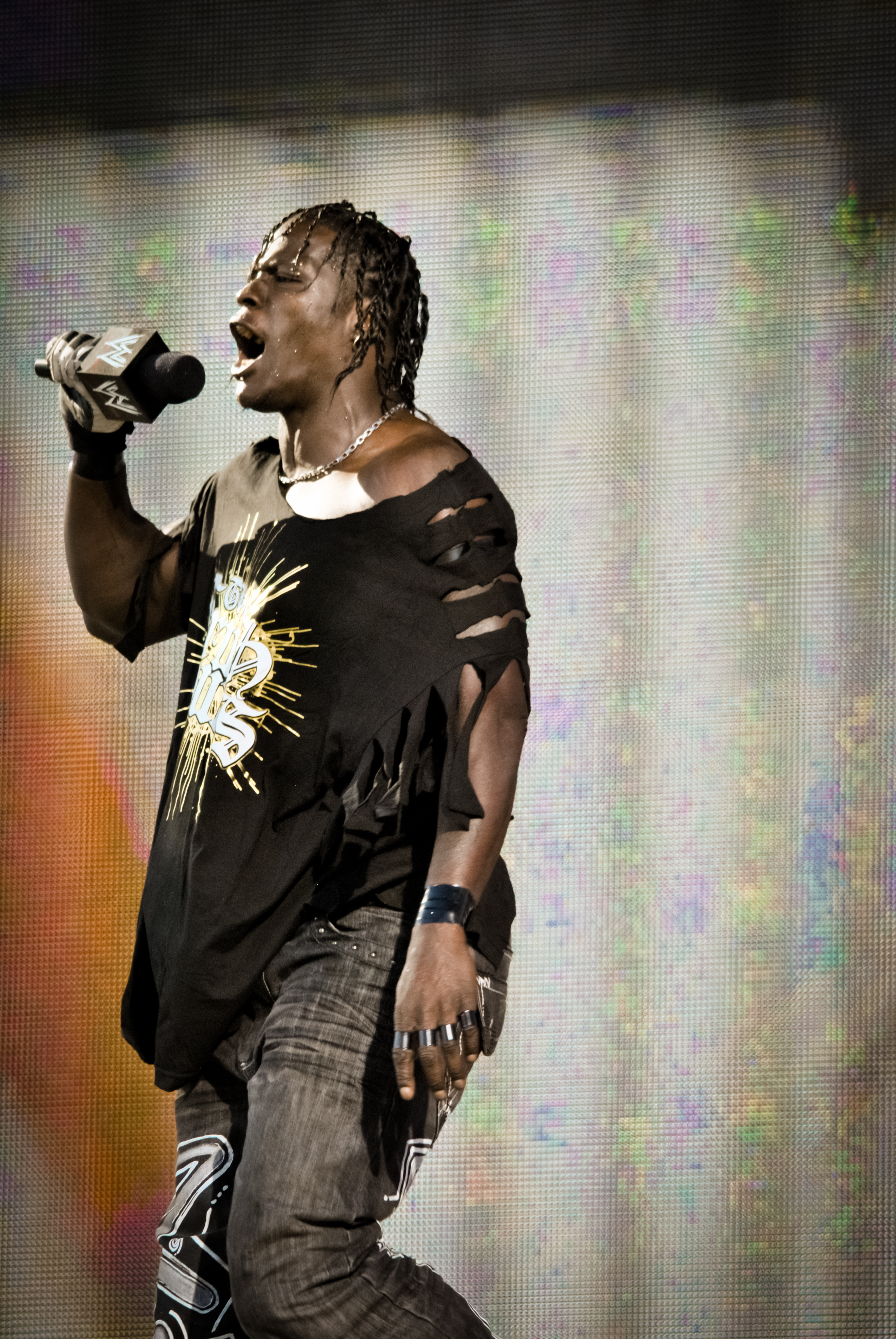 R-Truth at WWE's Tribute to the Troops show in Fort Hood, Texas, on December 11, 2010.